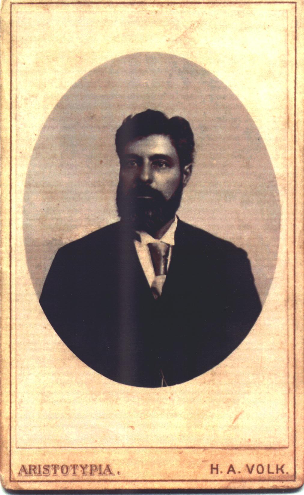 photografy of Manoel Demetrio de Oliveira, bodyguard of Duque de Caxias in Paraguay War